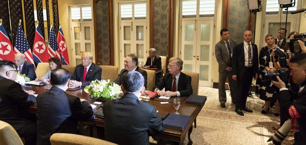 Bilateral meeting with respective delegations during the DPRK–USA Singapore Summit